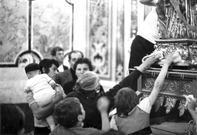 Festa di Sant'Antimo: Santuario di Sant'Antimo Prete e Martire.